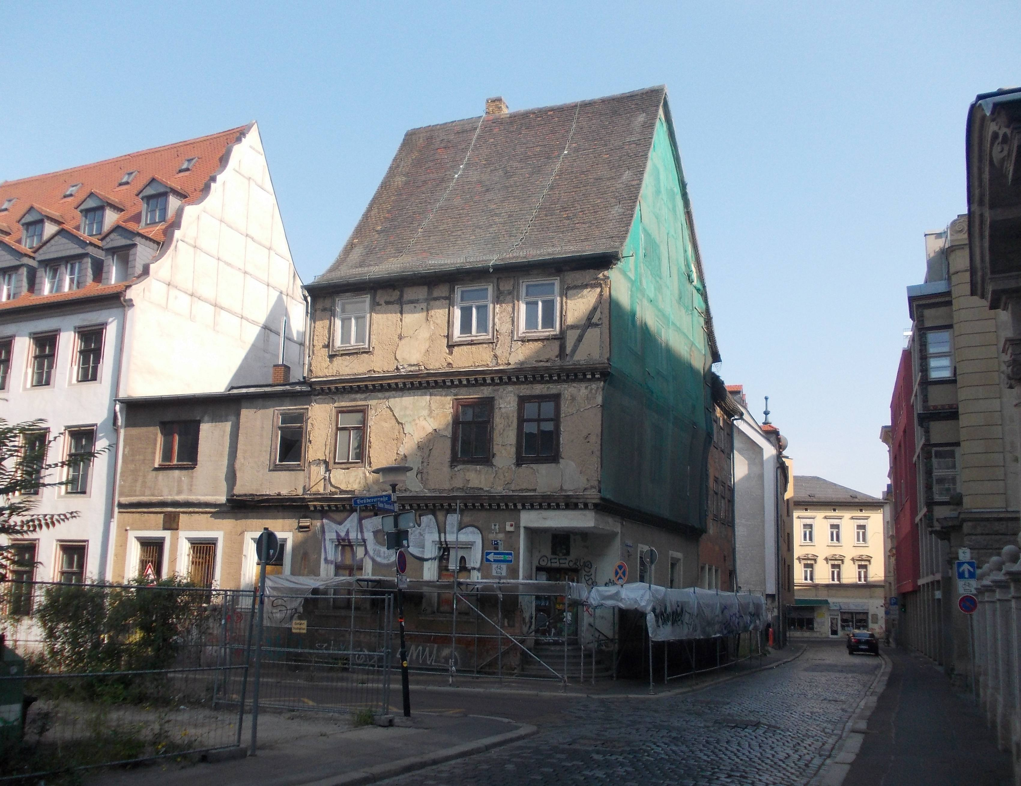 No. 7, Brüderstrasse in Halle (Saale)